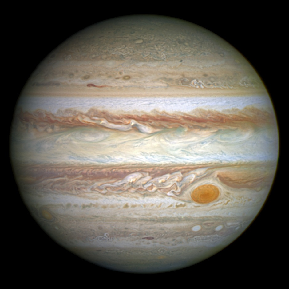 This full-disc image of Jupiter was taken on 21 April 2014 with Hubble's Wide Field Camera 3 (WFC3).